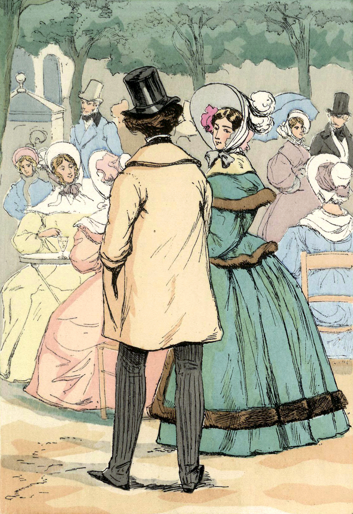 The woman depicted in this plate is wearing a dress with a very wide skirt and a fur trimmed 'paletot' or 'pardessus,' a coat-like garment worn over dresses. She is also wearing a large bonnet that almost covers her entire face, a style that would become more fashionable after 1840. The man is wearing a paletot, or a coat with lapels and a loose and straight cut through the hips, without adornments and a top hat. Abstract source: Boucher, François. 20,000 Years of Fashion. New York: Harry N. Abrams, Inc, 1967.